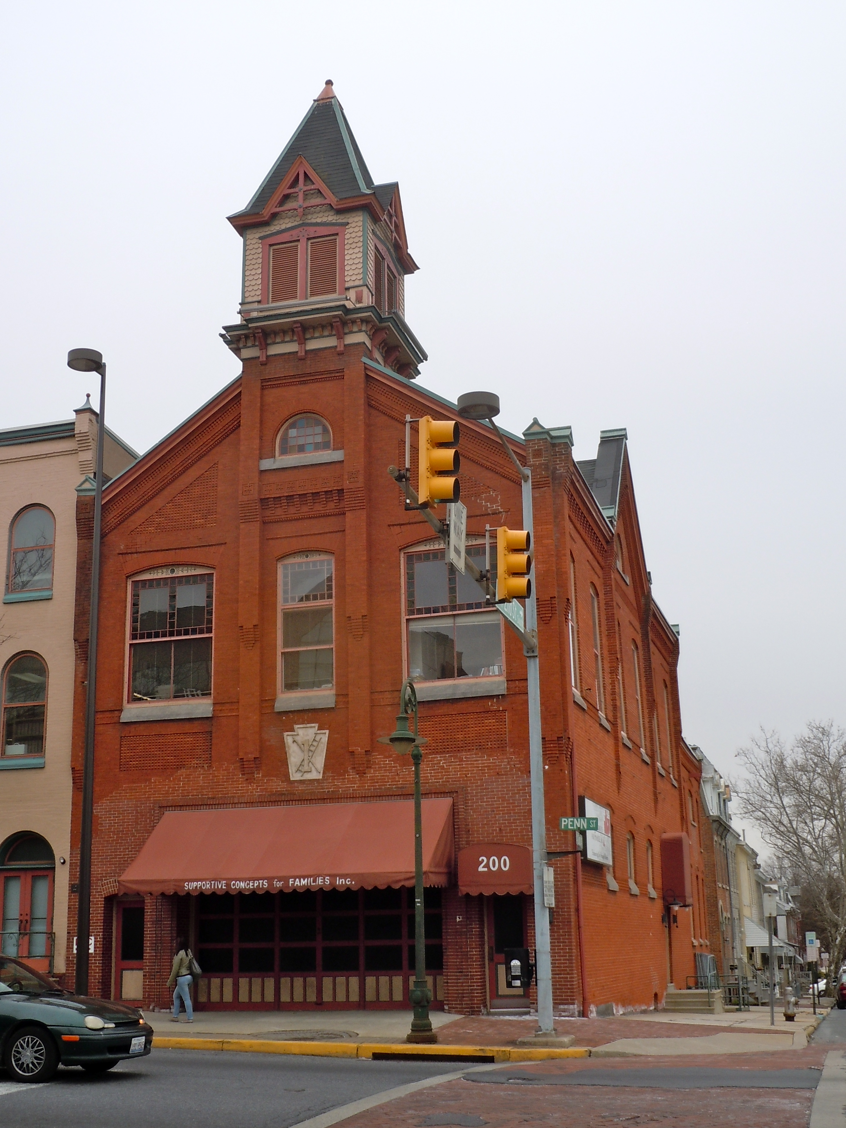 Keystone Hook and Ladder Company on the NRHP since October 31, 1985. At 2nd and Penn Streets, in downtown Reading, Berks County, Pennsylvania